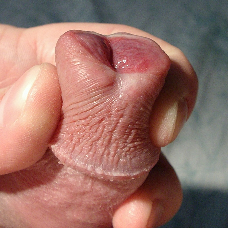 meatotomy